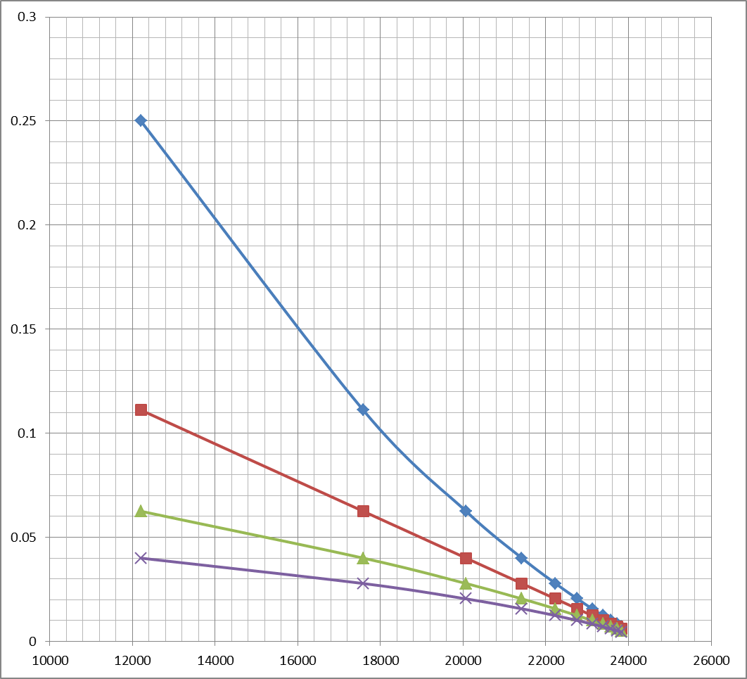 Graph showing wavelengths of the diffuse series of sodium plotted against N^-2 (inverse square) making assumptions of different starting point of n. Blue diamond starts with n=2, red square starts with n=3, green triangle starts with n=4, violet X starts with n=5. Only with starting n of 3 is a straight line achieved. Based on idea from A Procedure to Obtain the Effective Nuclear Charge from the Atomic Spectrum of Sodium by O. Sala , Koiti Araki and L. K. Noda, in Journal of Chemical Education 76 (9), p 1269 Sept 1999, doi=10.1021/ed076p1269